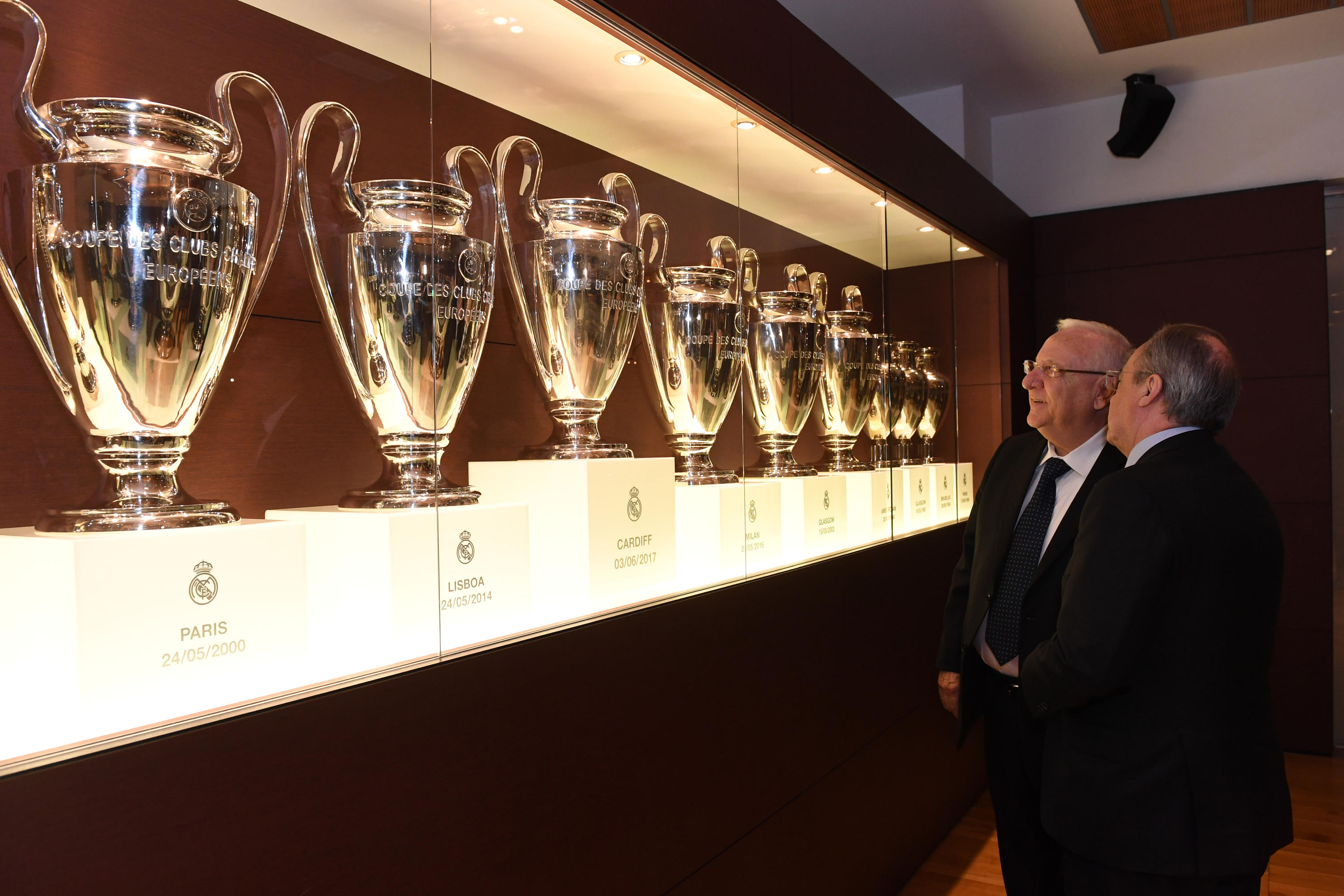 President of the State, Rubi Rivlin, in a meeting with the president of the football club Real Madrid. Tuesday, November 7, 2017. Photo Credit: Haim Tzach / GPO.